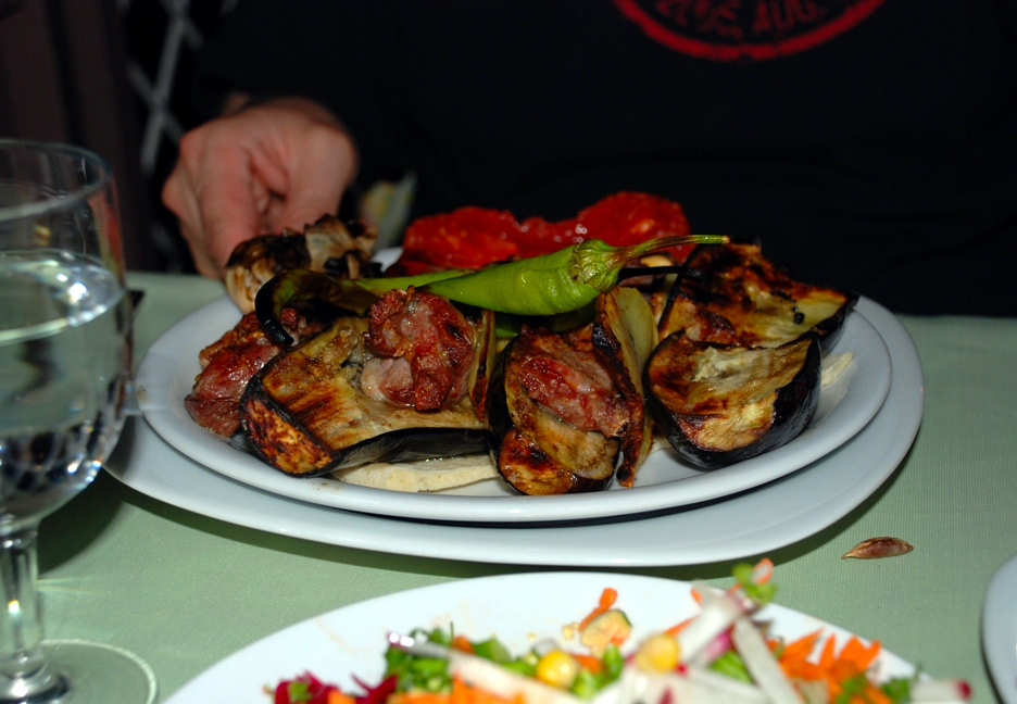 Tokat Kebap